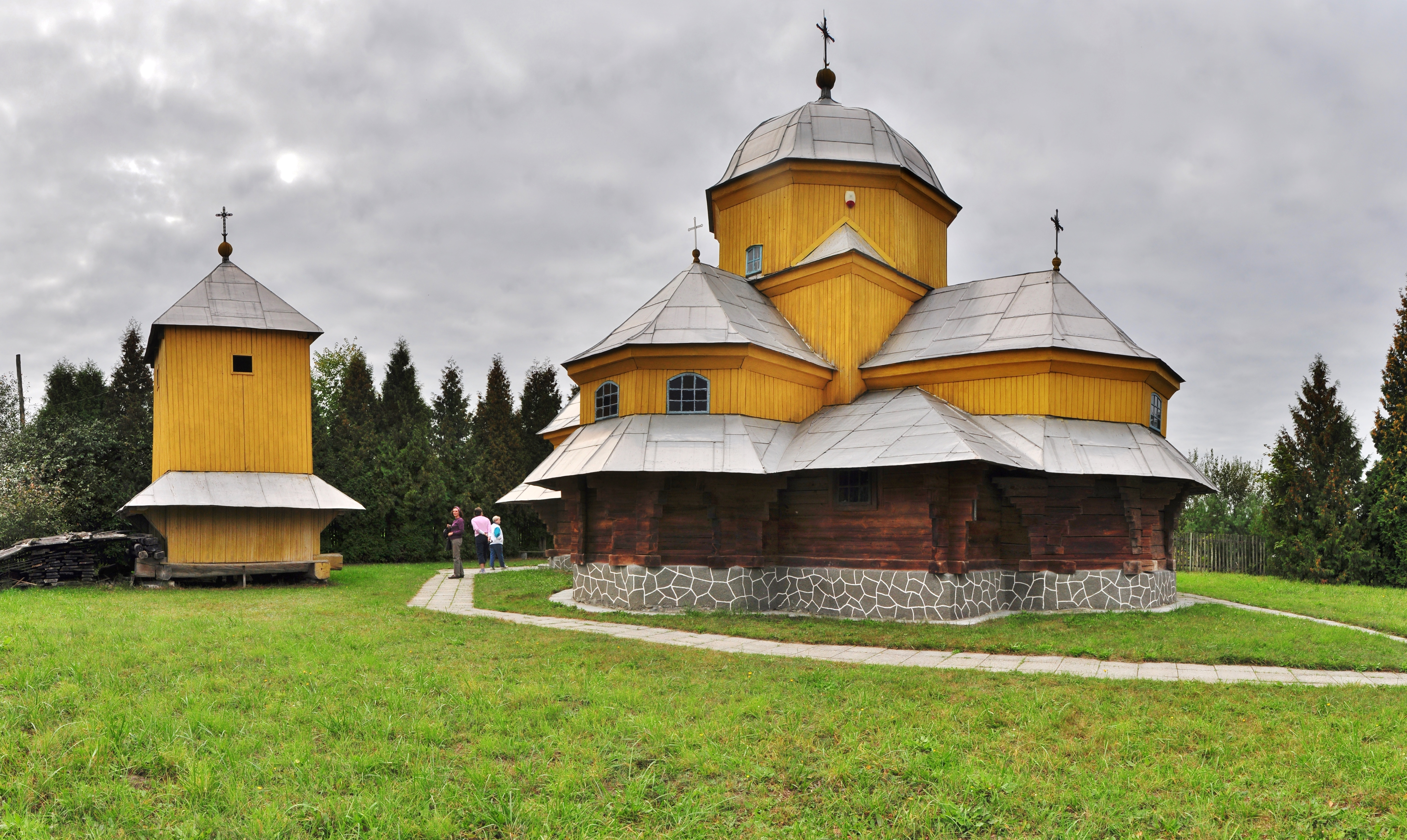 Church of Assumption of the Blessed Virgin Mary, 1813, Lelechivka village, Yavoriv Raion, Lviv Oblast